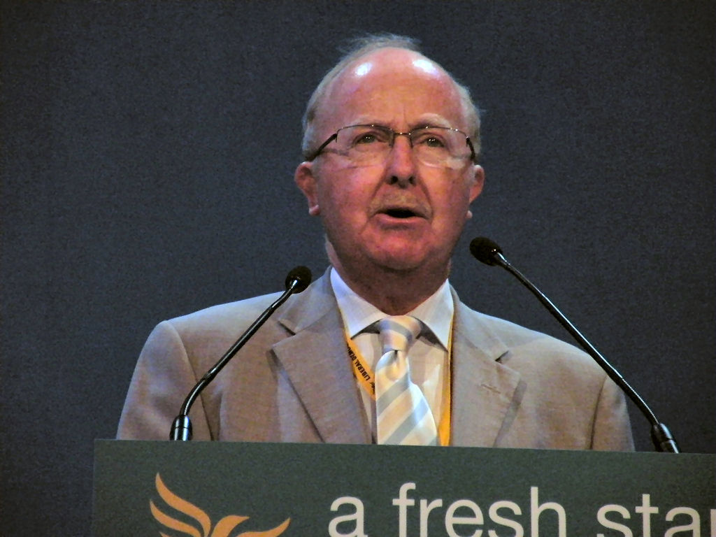 Ross Finnie, MSP addressing a Liberal Democrat conference in the Bournemouth International Centre